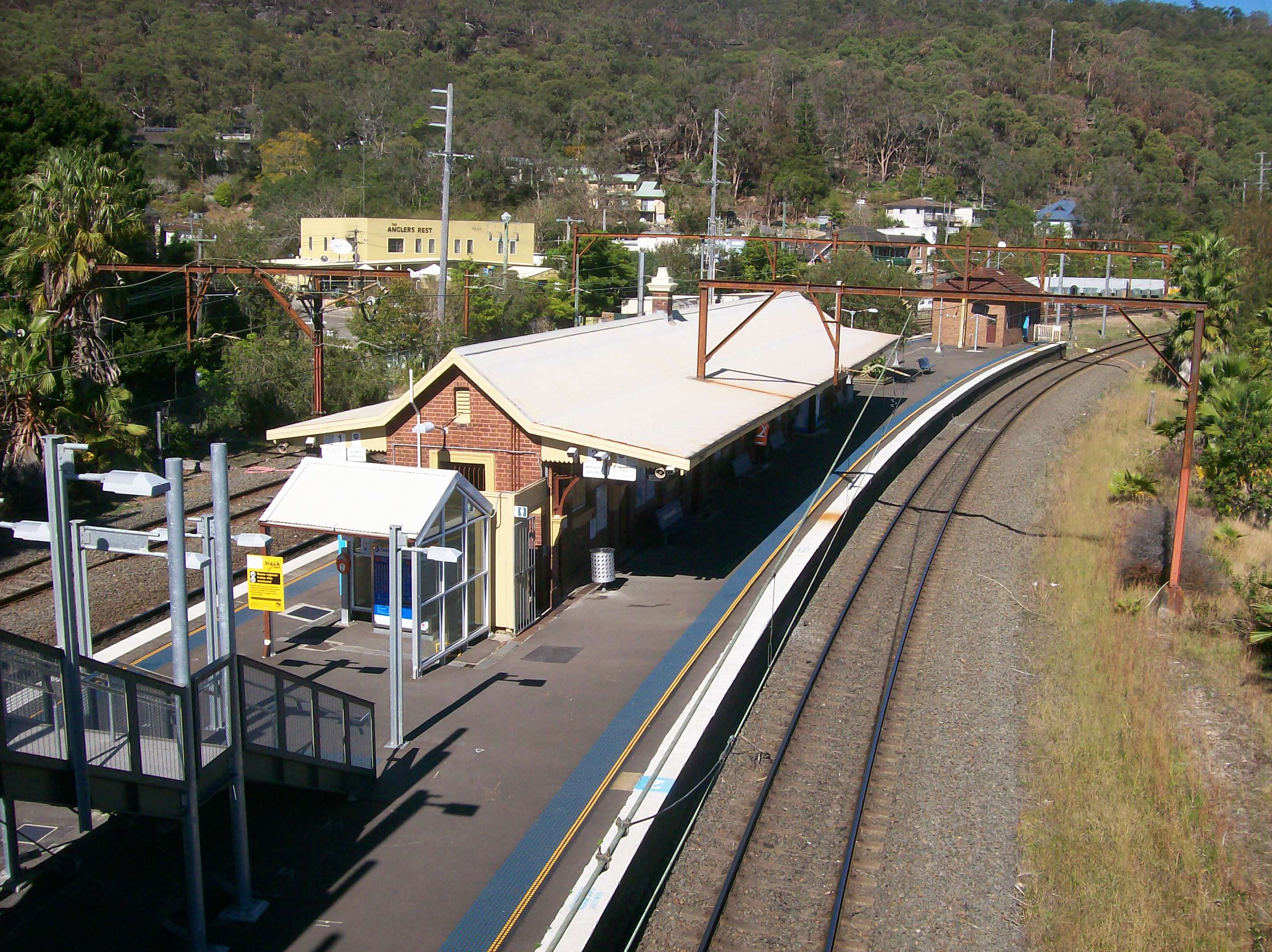 Hawkesbury River railway station